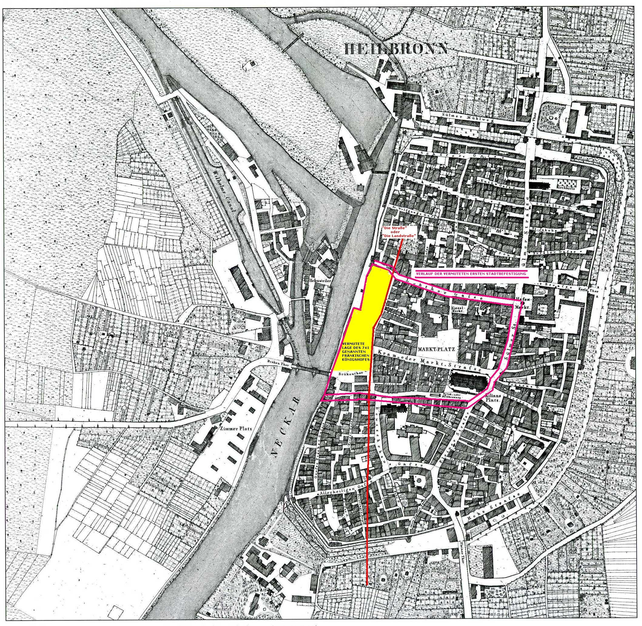 Historische Flurkarte von 1834 Heilbronn